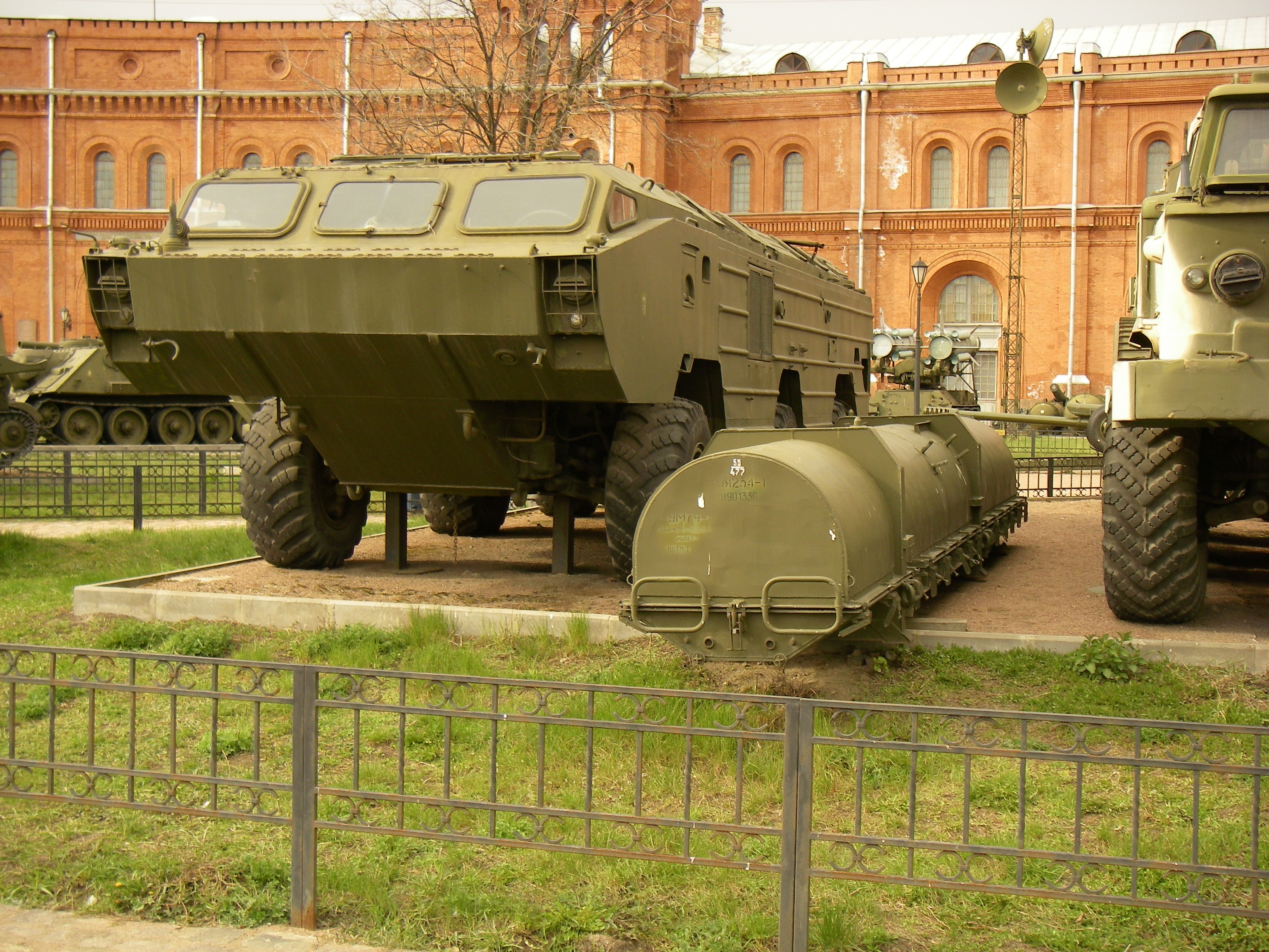 2P129 Transporter-Erector-Launcher and 9M79 rocket of 2K79 Tactical ballistic missile complex «Tochka» in Saint-Petersburg Artillery museum. Next, the container 9Ya234 for transporting the missiles.